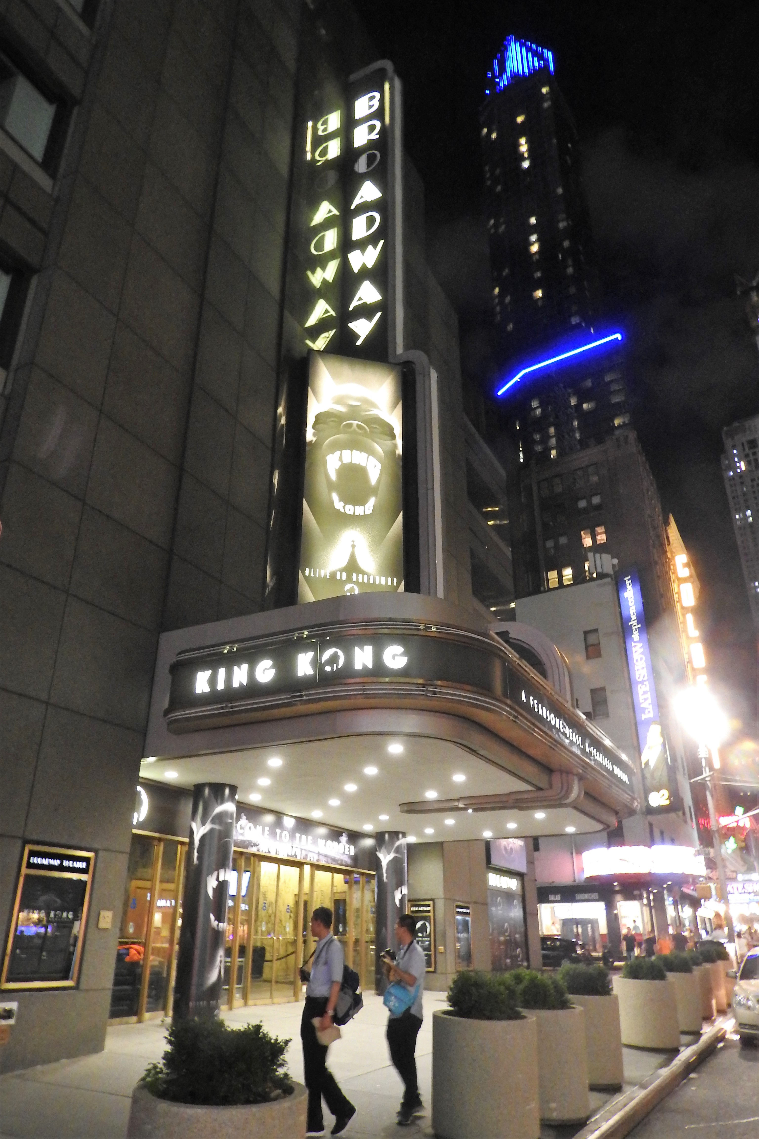 Looking north at the Broadway Theatre on a warm night, signage for King Kong on the marquee